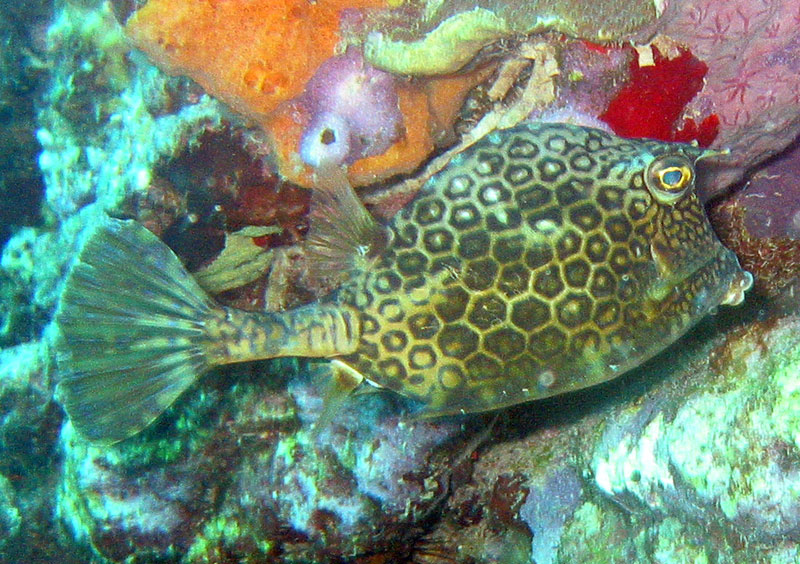 Honeycomb cowfish (Acanthostracion poligonius syn Lactophrys polygonia) on Bonaire.